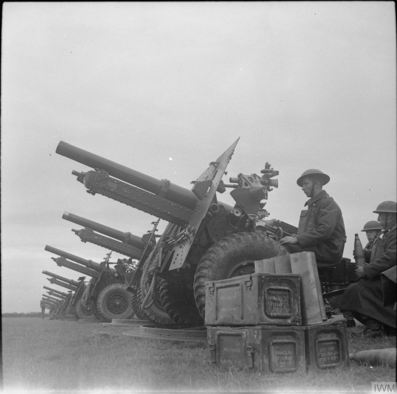 The British Army in the United Kingdom 1939-45 25-pdr field guns of 408th Battery, 146th Field Regiment, Royal Artillery, at Littlehampton in Sussex, 14 November 1941.